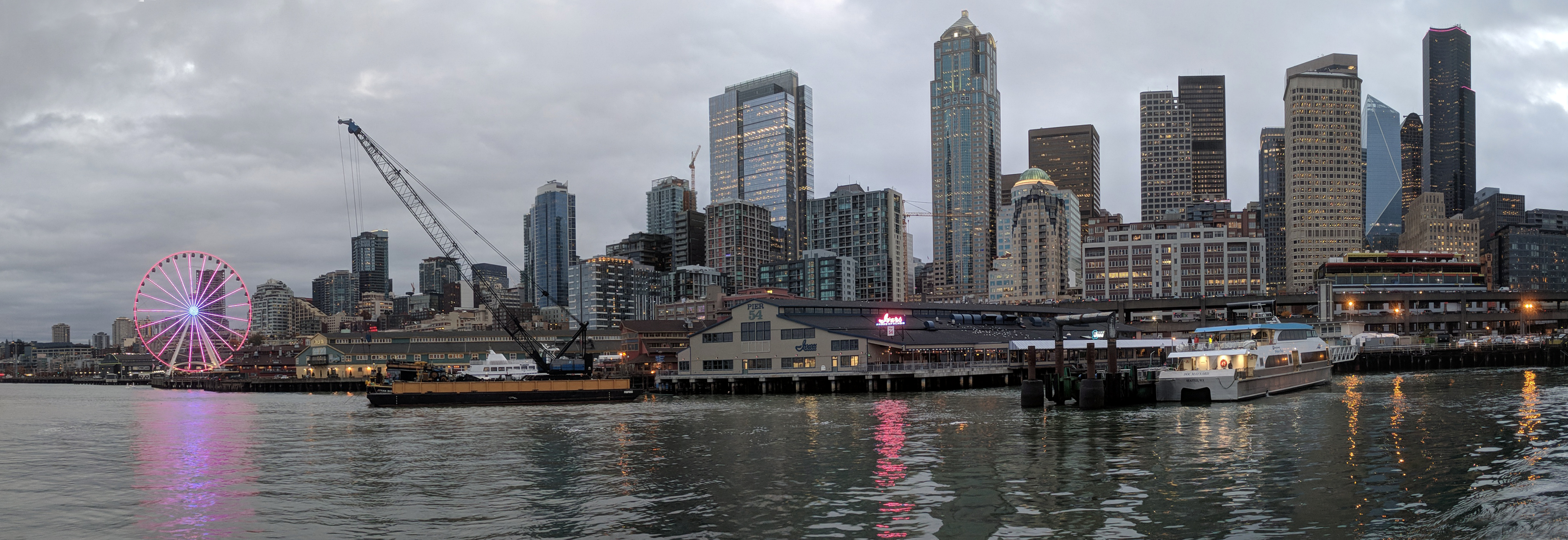 Seattle skyline near twilight, accented by the Seattle Great Wheel (left)